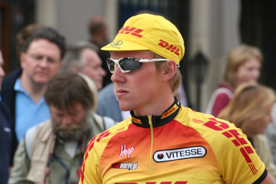 Mateusz Komar